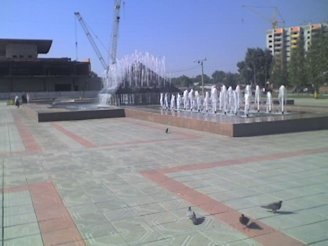 Sity of Kopejsk.